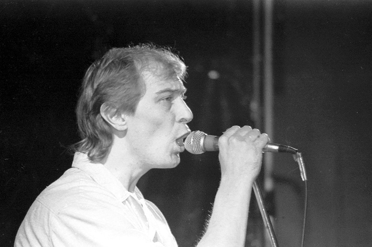 Optreden van Polle Eduard en Band op 28 februari 1987 in Alphen aan de Rijn.